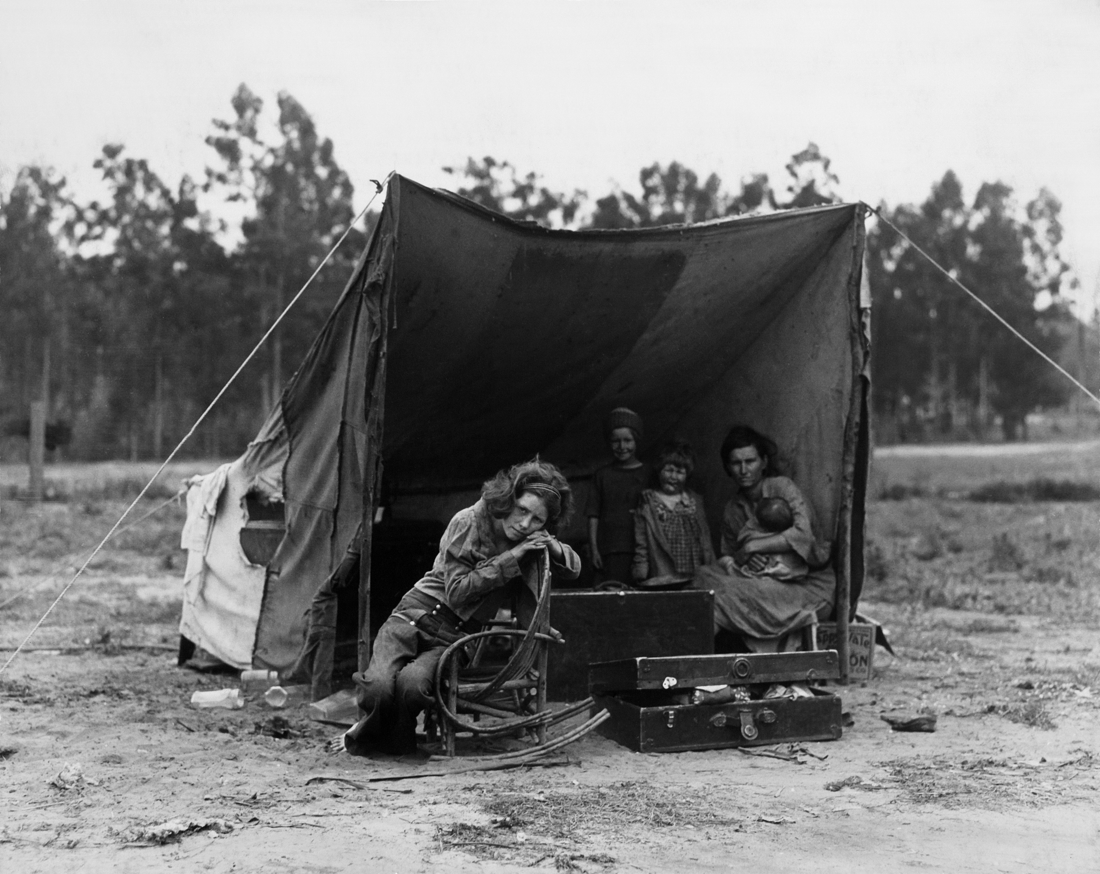 Photography of Florence Owens Thompson, known as "Migrant Mother", Pea-Pickers Camp, Nipomo, California.